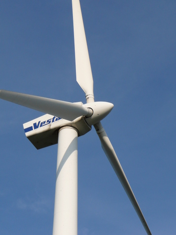 A windmill in Sweden. – JMT (T) 08:44, 11 March 2007 (UTC)